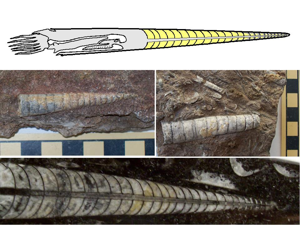 Orthoceratid nautiloids. Above: ideal reconstructionion life position; below: two specimen and a polished section of phragmocone (visible the endocameral deposits). Late Silurian-Early Devonian of Erfoud (Morocco).